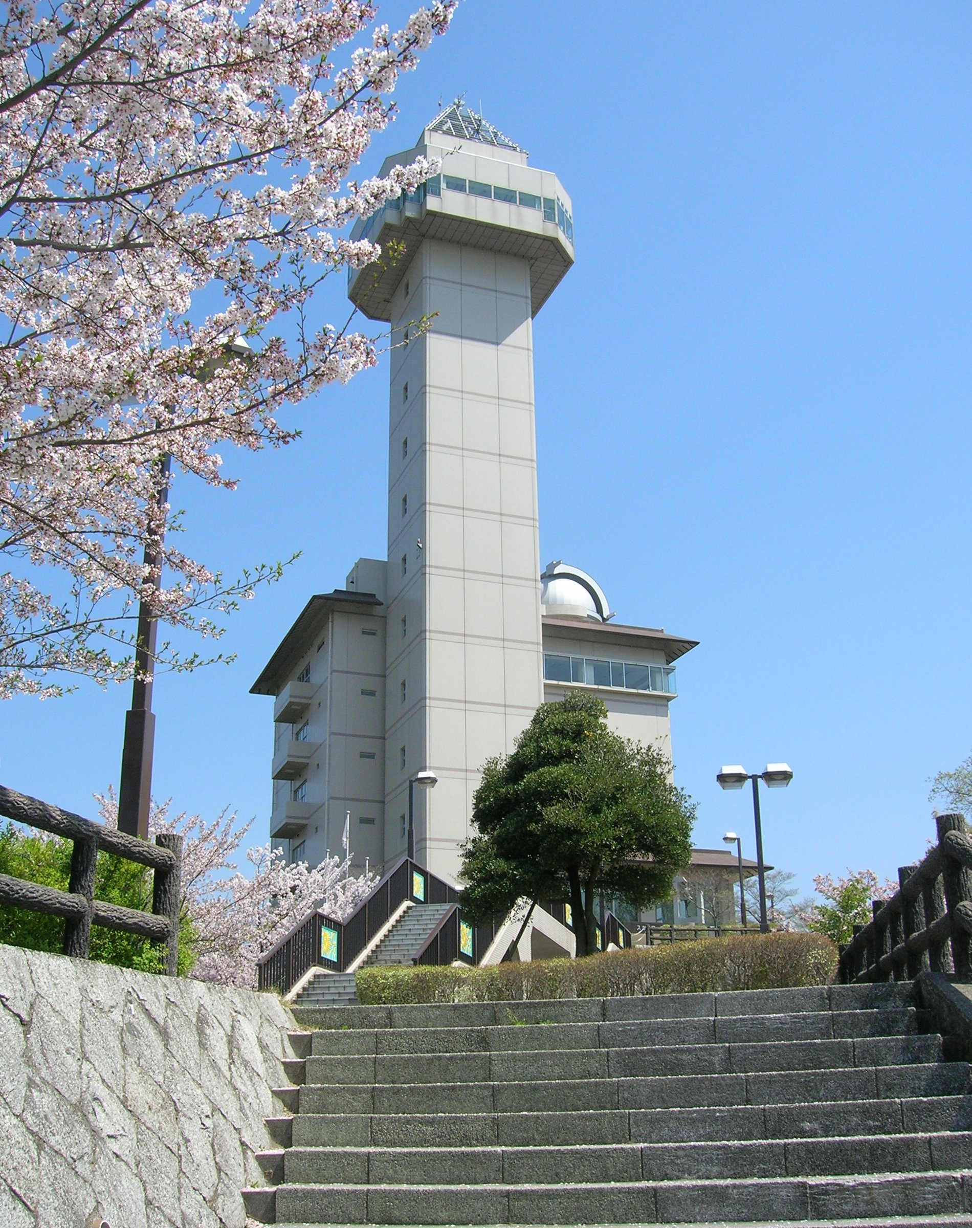 Skyward Asahi (Belvedere, Public astronomical observatory, Folk museum, and conference rooms etc.) Loc: Shiroyama Park, Owariasahi city, Aichi Prefecture, Japan. スカイワードあさひ 撮影場所 愛知県尾張旭市・城山公園